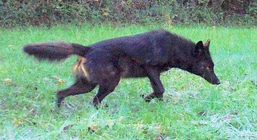 Black Coydog in South Carolina, 2015.